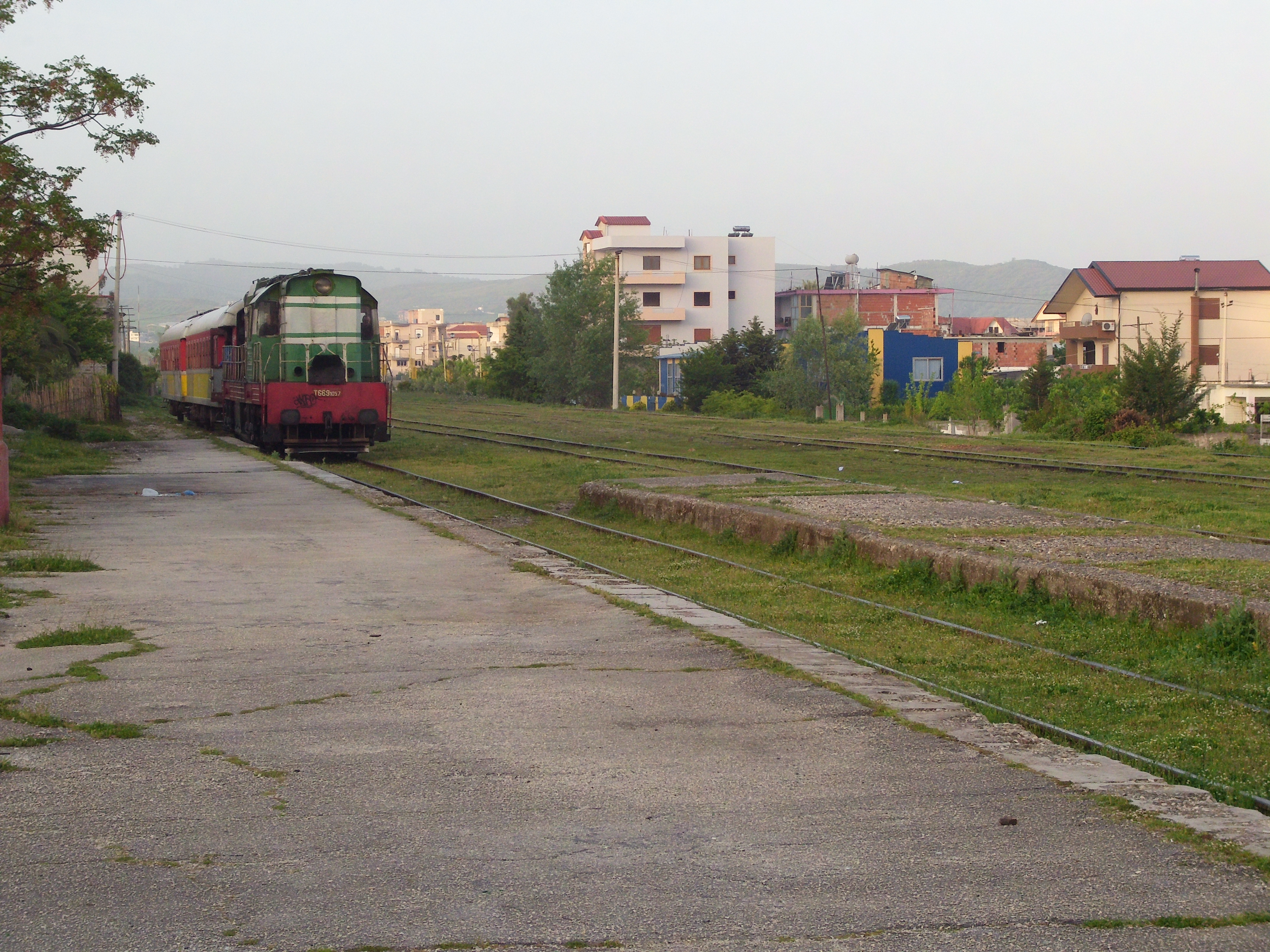 Passenger train from Vlorë towards Durrës arriving at Fier, Albania. It is headed by a ČKD T-669 diesel locomotives T669.1057.